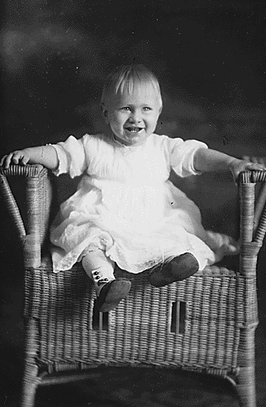 Gerald Ford, Picture of President (1914).